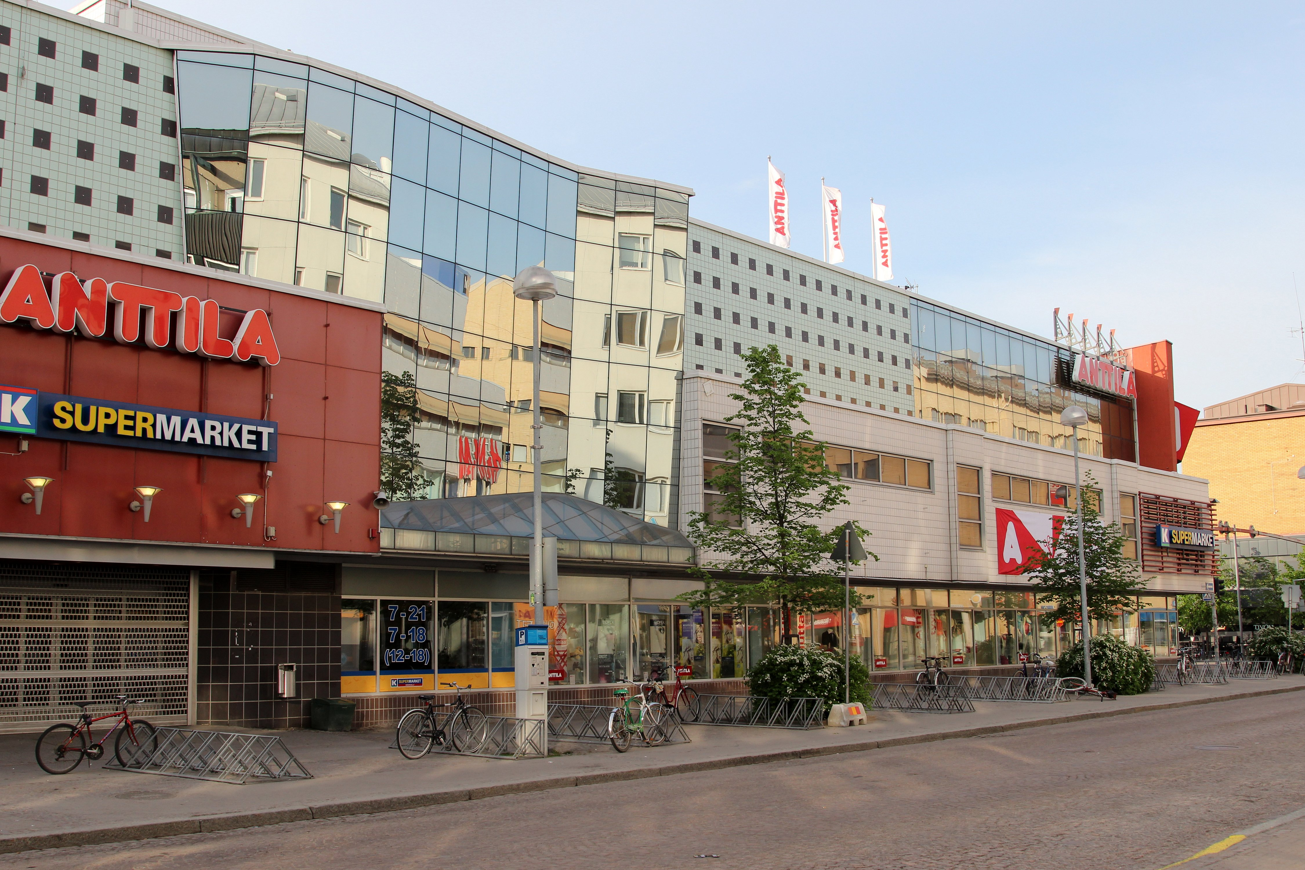 The Anttila department store in the centre of Oulu.